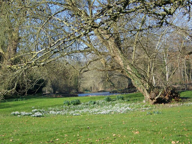 Snowdrops, Little Durnford Manor Looking across to the pond in the grounds of the manor. The pond is fed by the River Avon.